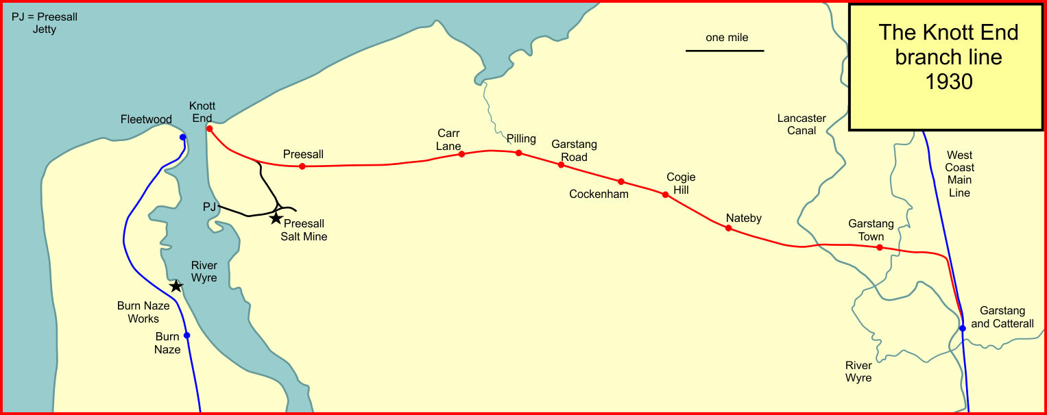 System map of the Knott End branch line railway in Lancashire, England, in 1930